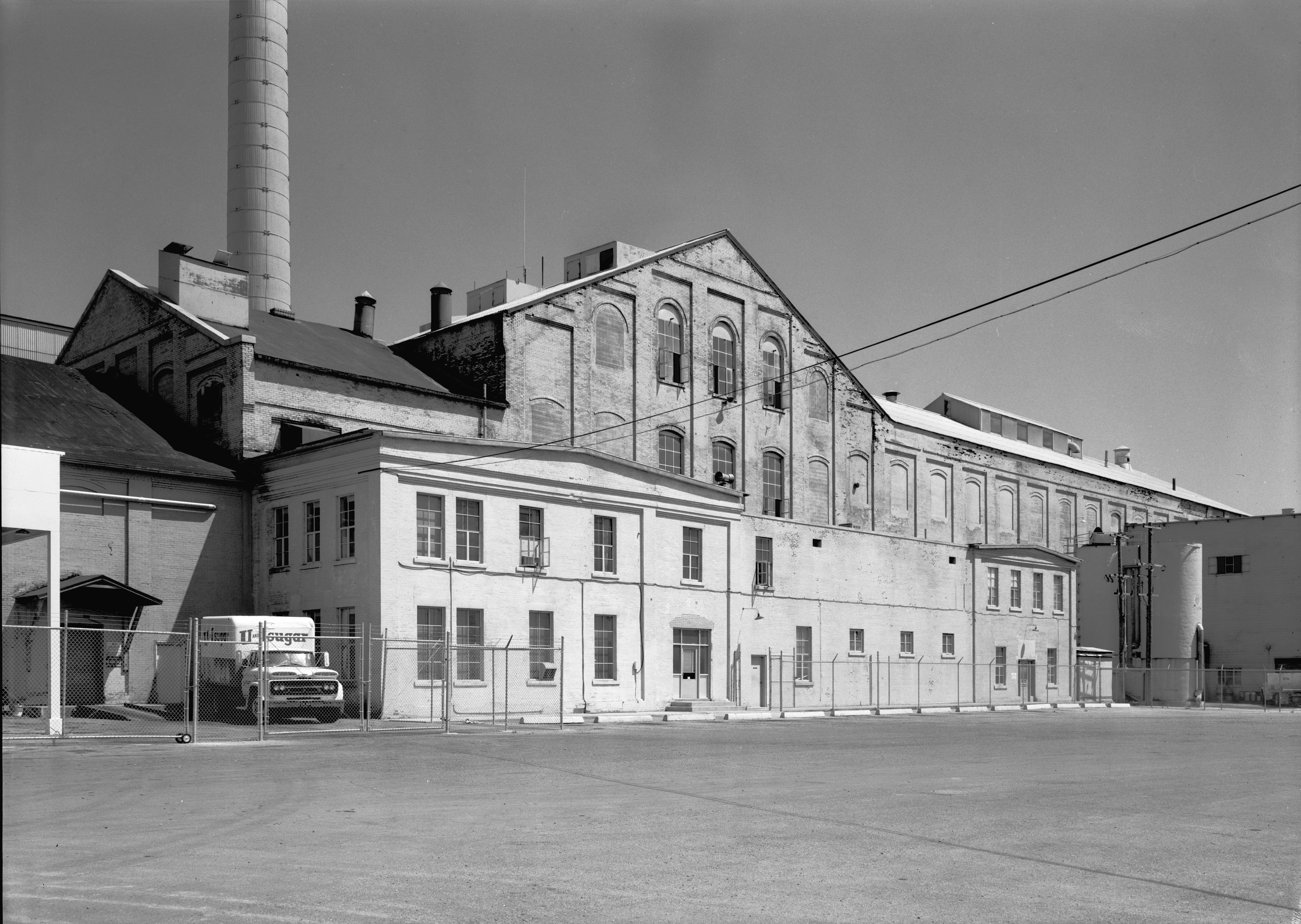 "GV FROM SW. Utah Sugar Company, Garland Beet Sugar Refinery, Factory Street, Garland vicinity, Box Elder County, UT" Survey number HAER UT-19